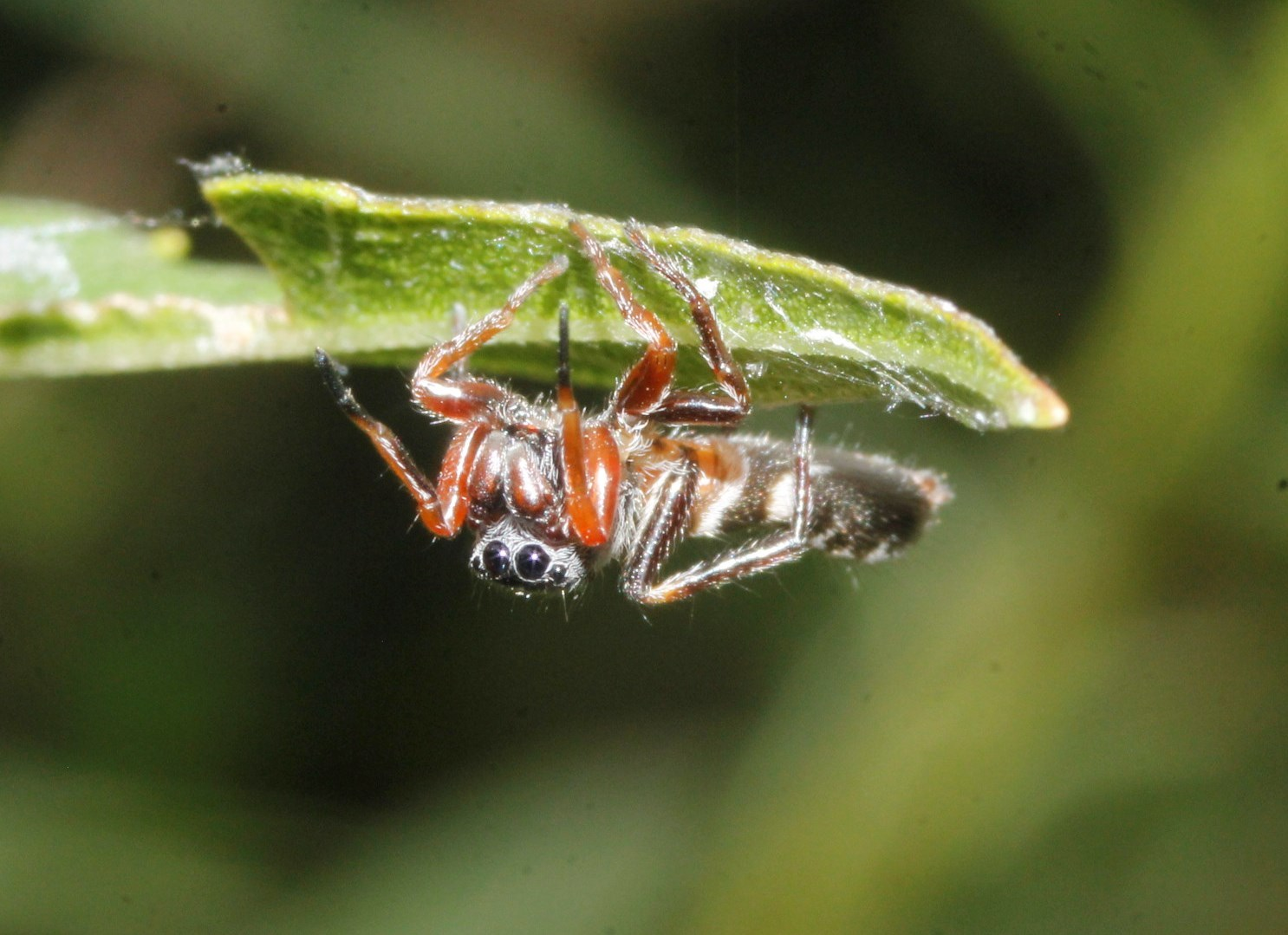 Male Zuniga jumping spider in Linares, Nuevo León, Mexico